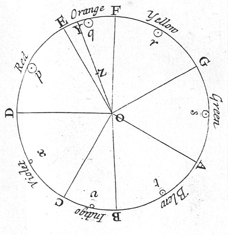 "In a mixture of primary colours, the quantity and quality of each being given, to know the colour of the compound." Throughout Opticks, Newton compared colours in the spectrum to a run of musical notes. To this purpose, he used a Dorian mode, similar to a white-note scale on the piano, starting at D. He divided his colour wheel in musical proportions round the circumference, in the arcs from DE to CD. Each segment was given a spectral colour, starting from red at DE, through orange, yellow, green, blew [sic], indigo, to violet in CD. (The colours are commonly known as ROY G BIV.) The middle of the colours—their 'centres of gravity'—are shown by p, q, r, s, t, u, and x. The centre of the circle, at O, was presumed to be white. Newton went on to describe how a non-spectral colour, such as z, could be described by its distance from O and the corresponding spectral colour, Y.